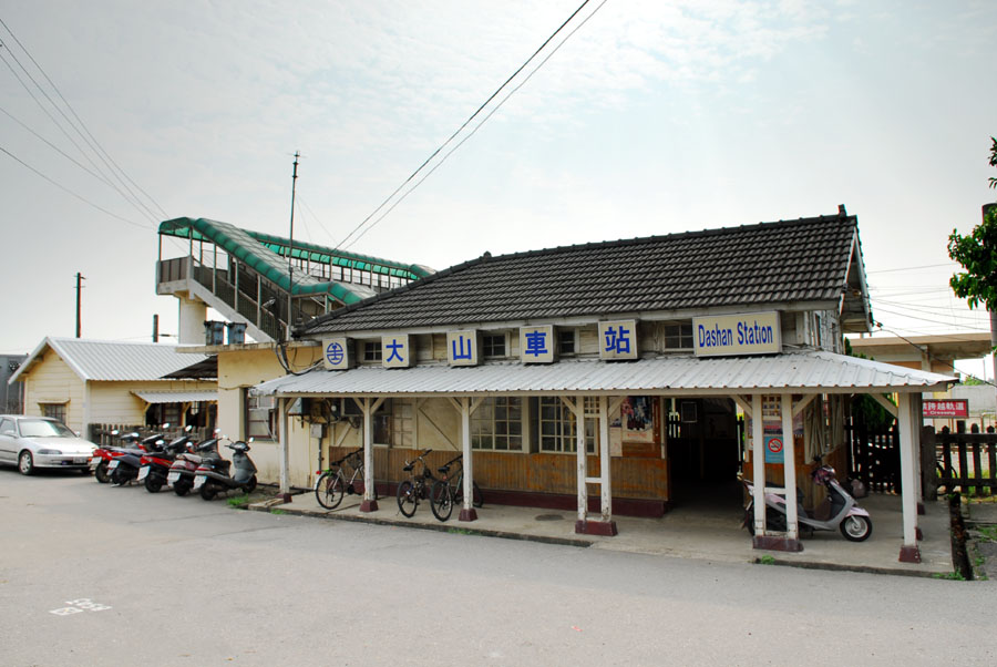 DaShan Station is a small local train station of Taiwan's Western main rail line. It's located within the boundary of HouLong Town, Miaoli County. The station building built in 1922 has been appointed as a county heritage site by Miaoli County government.